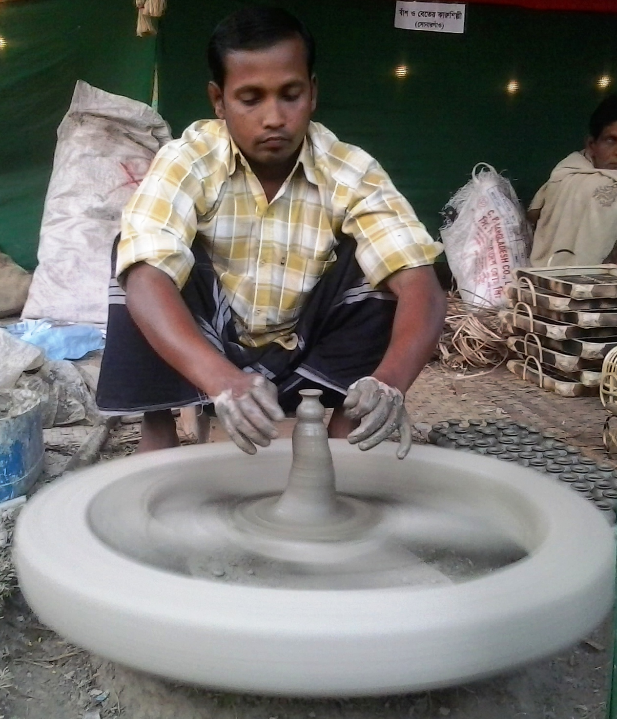 Baishakhi fair, Sonargaon, Narayangong